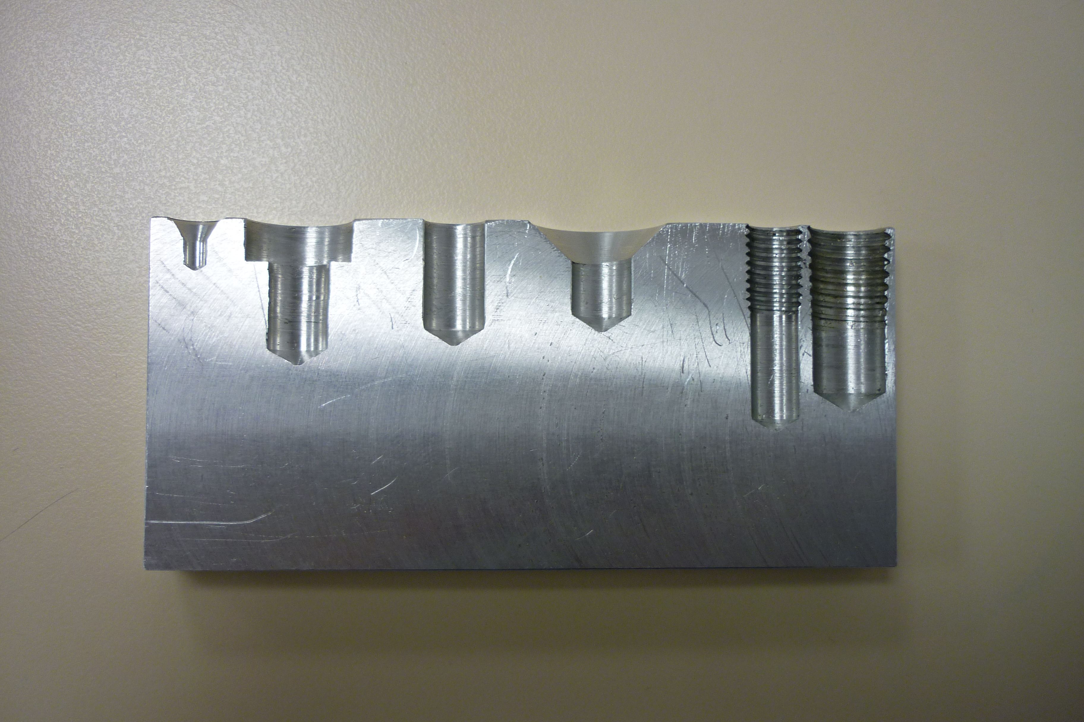 Various blind holes, from left to right: centering hole; hole with counter-boring; simple hole; countersunk hole; threaded holes. The holes were machined in an aluminium block, then the block was milled.